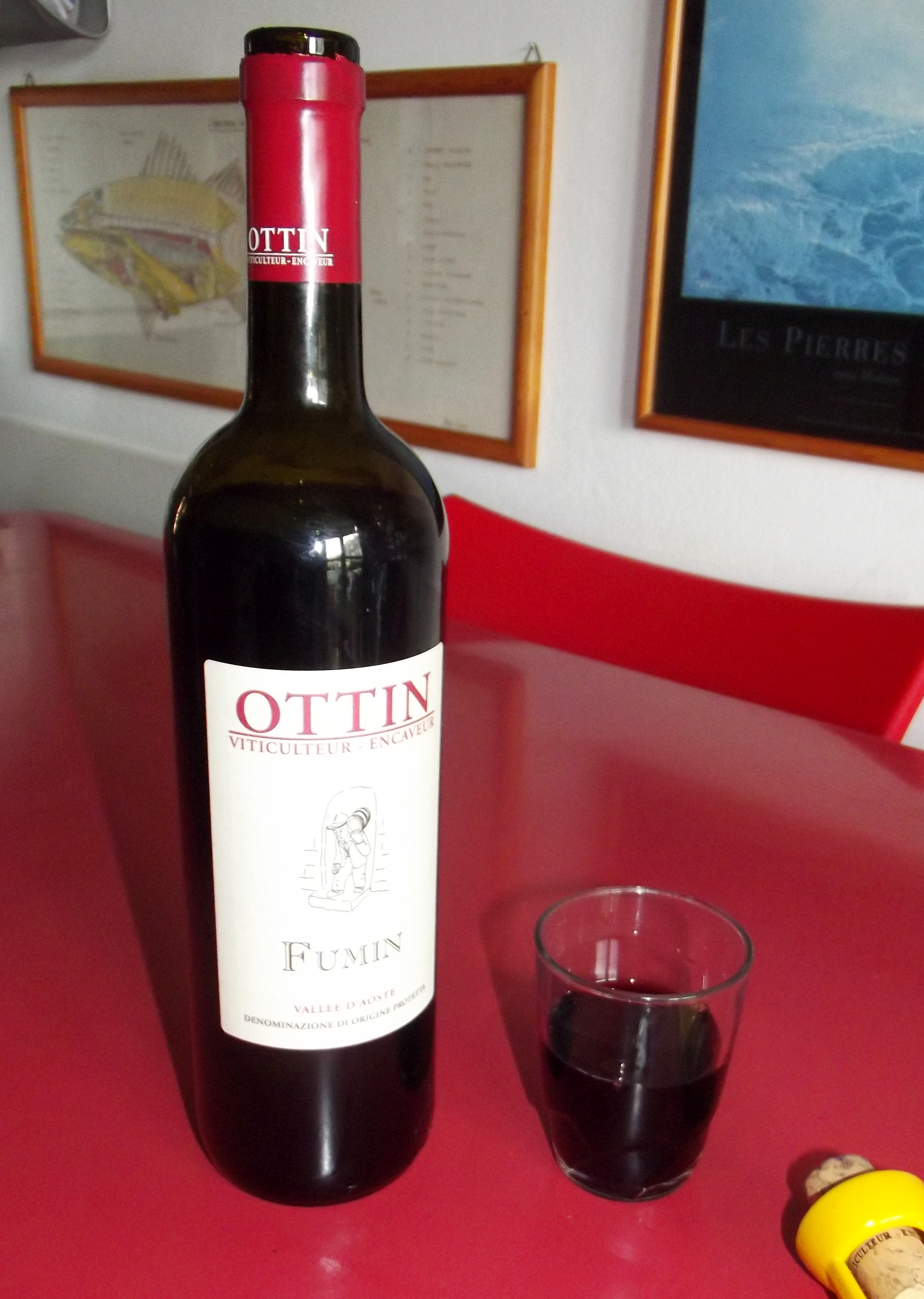 Italian wine from the Valle d'Aosta (Italy) made from Fumin